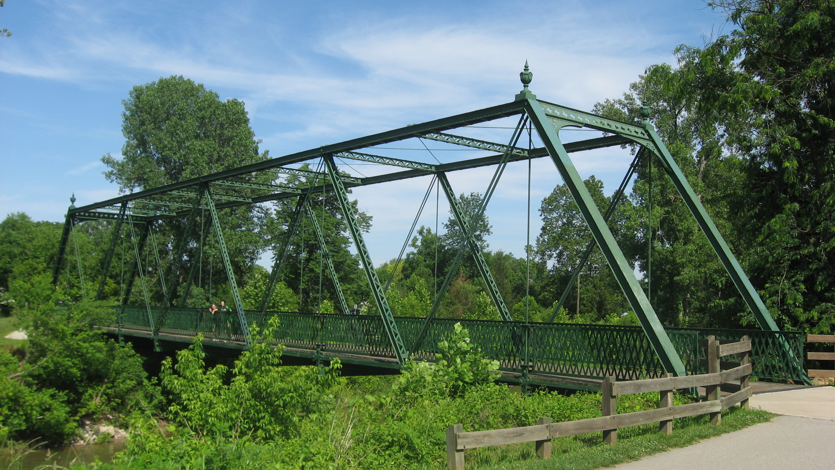 Northern side of the Hendricks County Bridge Number 316, which carries a trail over White Lick Creek in a city park on the southern side of Plainfield, Indiana, United States. Built in 1886, it is listed on the National Register of Historic Places.